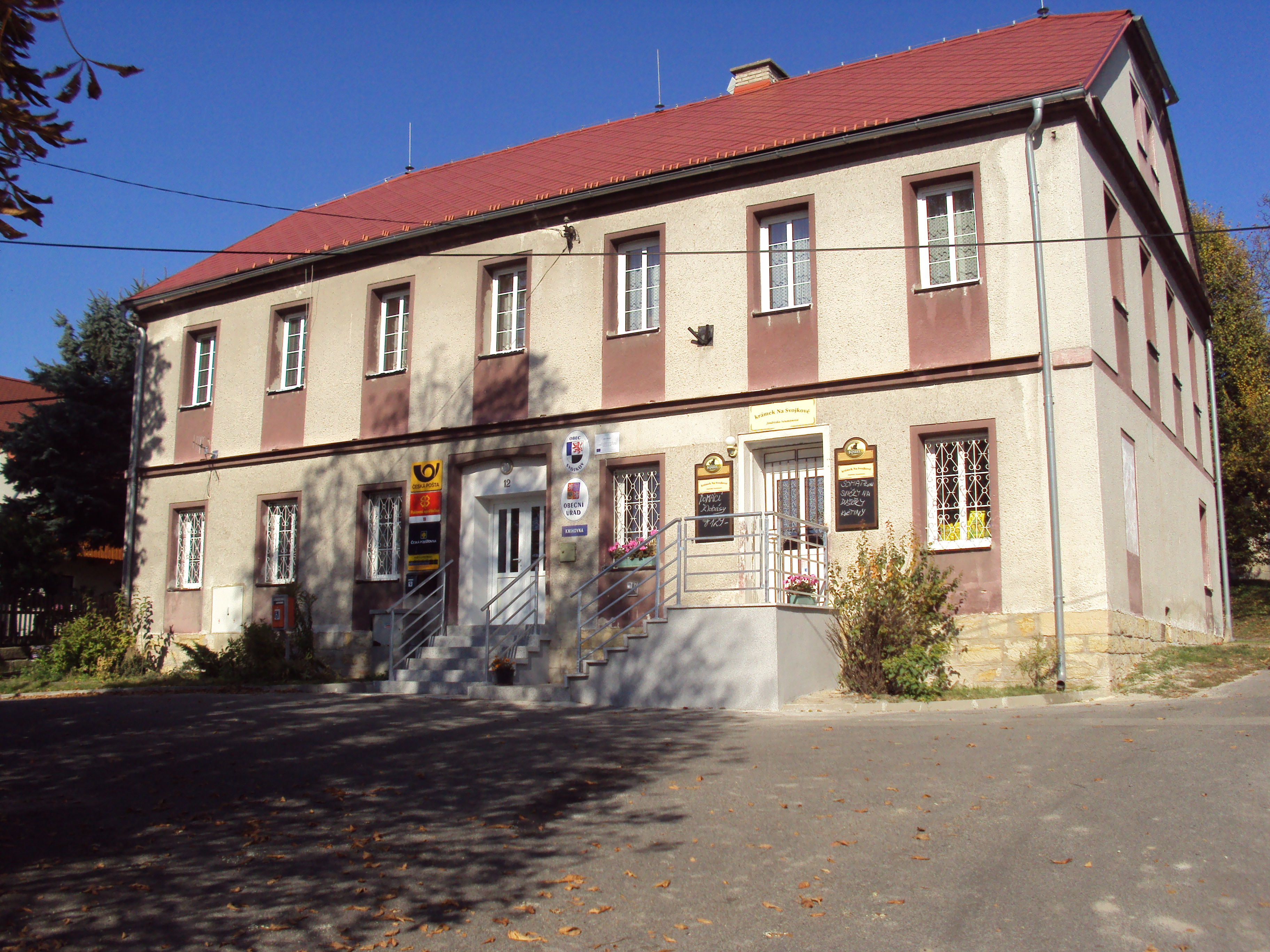 Municipal office and library in Svojkov, Česká Lípa District, Czech Republic